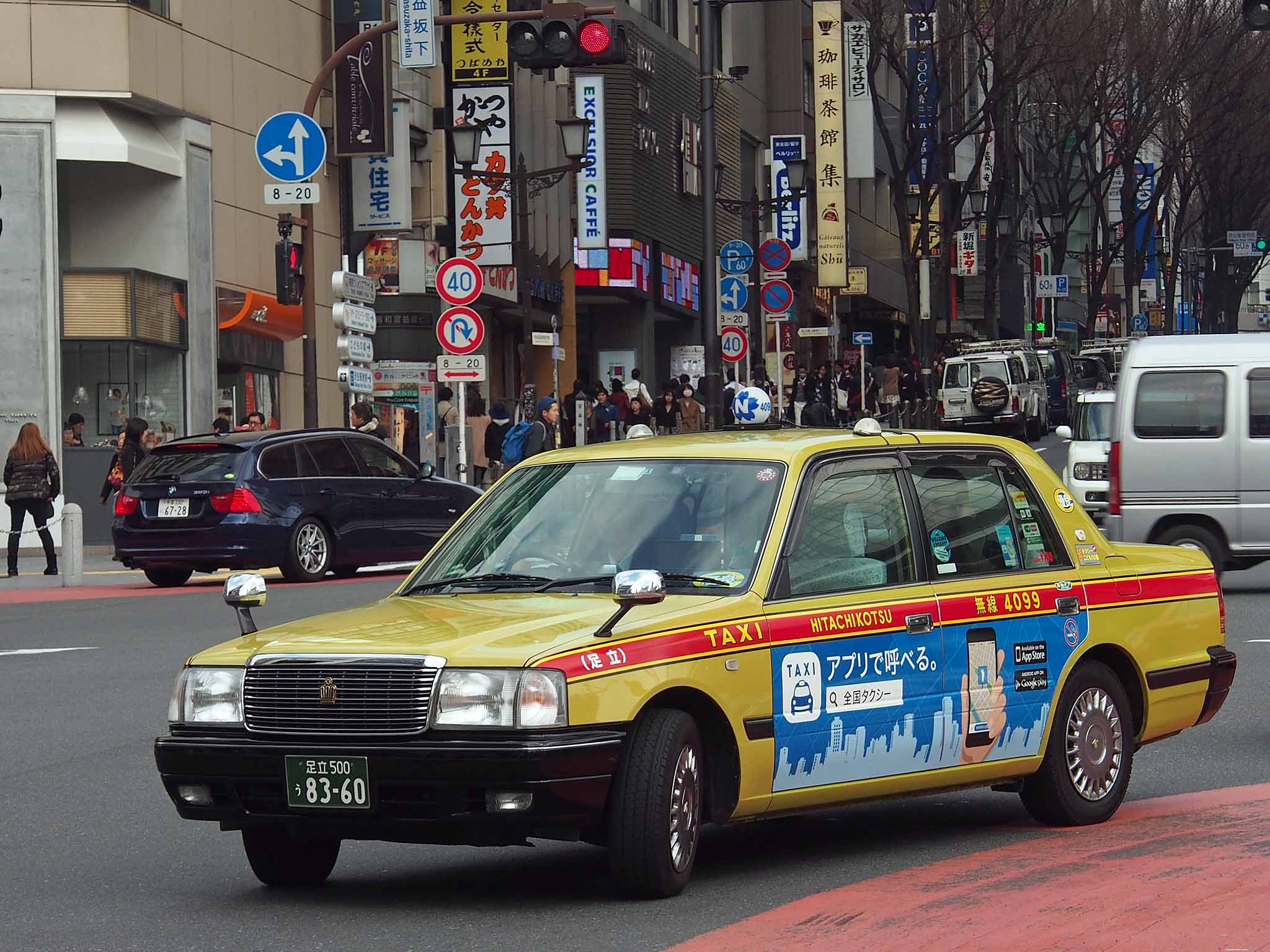 Taxi of Hitachi Jidosha Kotsu, member of Nihon Kotsu Group.